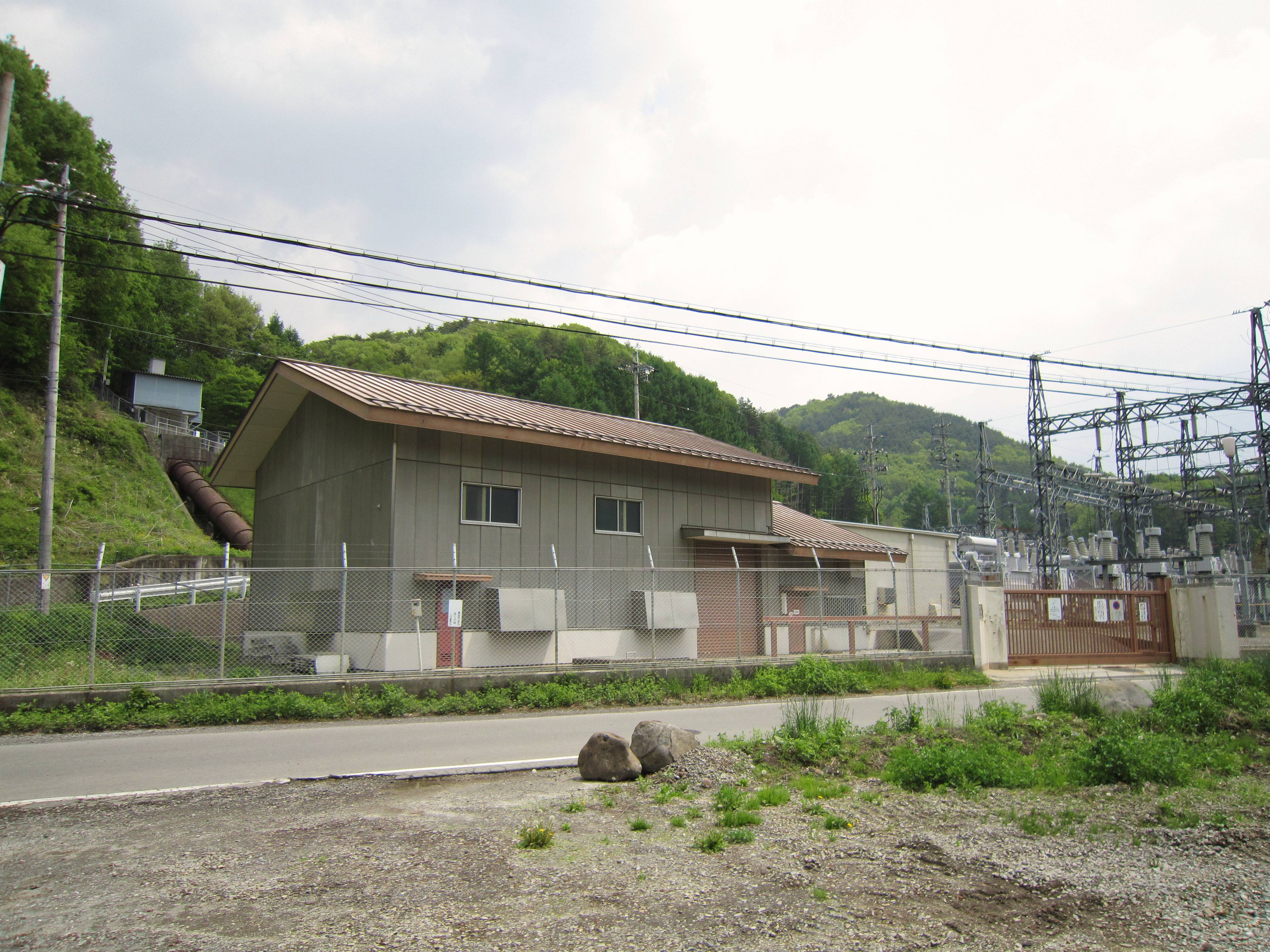 Yonezawa power station.